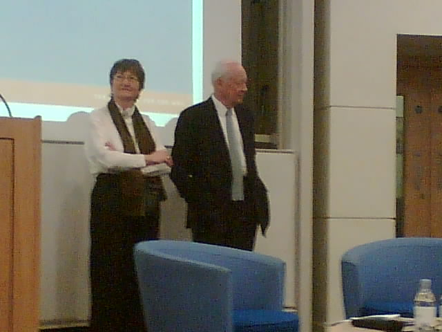 Charles and Elizabeth Handy